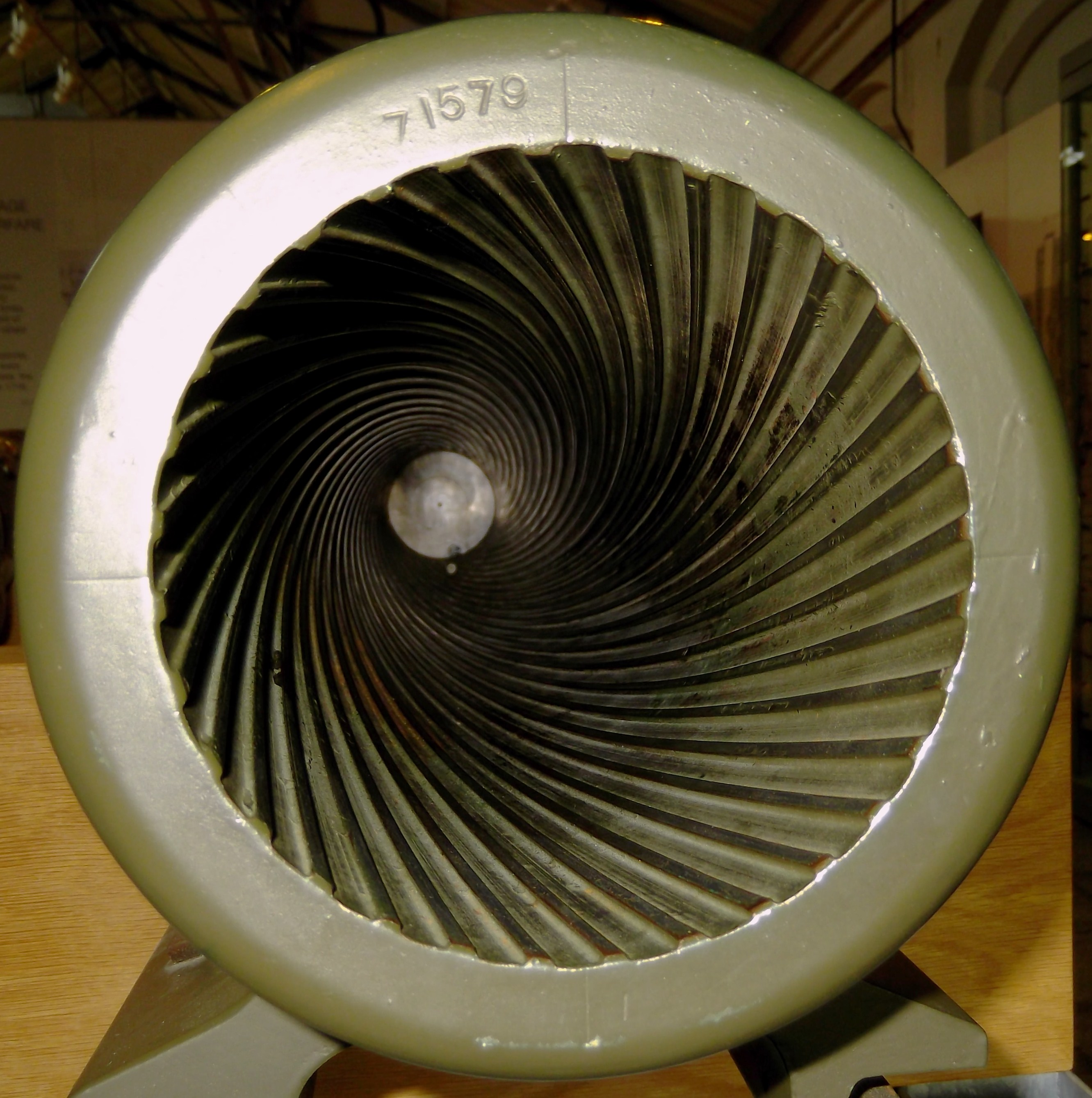 Muzzle of QF 4.5 inch howitzer barrel, at the Royal Artillery Museum Woolwich London.